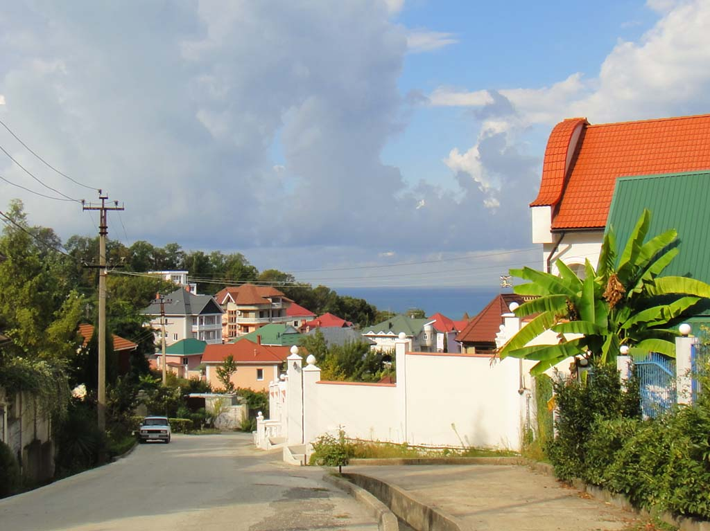 Dagomys area in Sochi, Russia. Bolnichnaya street